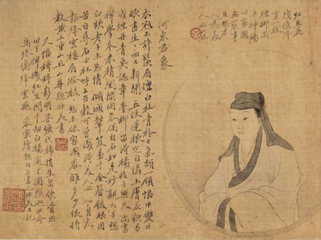 PORTRAIT OF HEDONGJUN